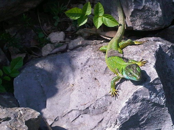 European Green Lizard (Lacerta viridis), Southern Hungary, Orfű, April 2, 2011